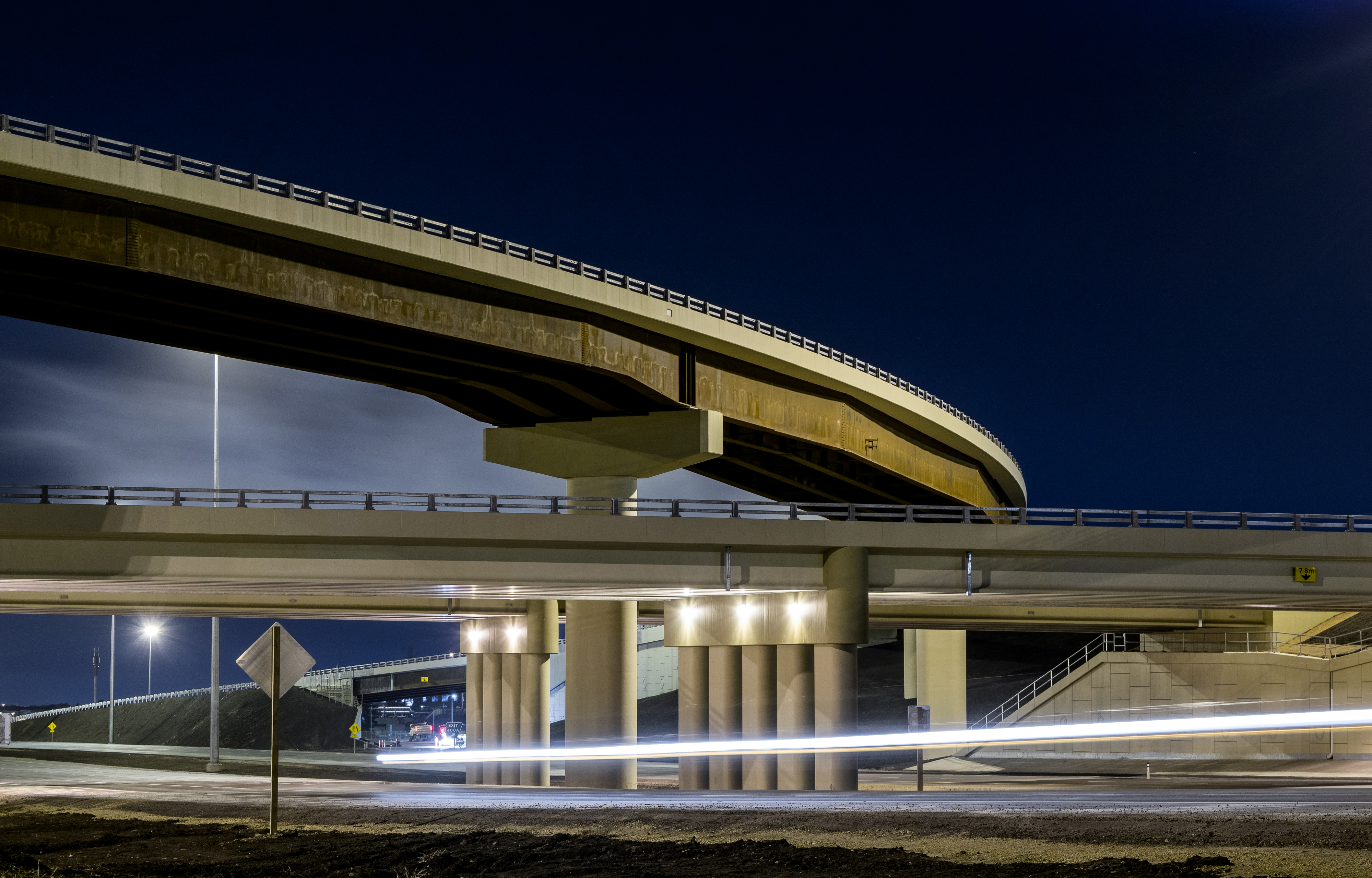 Anthony Henday Drive interchange over Yellowhead Trail, Strathcona County immediately east of Edmonton, Alberta. Construction was completed in 2016.